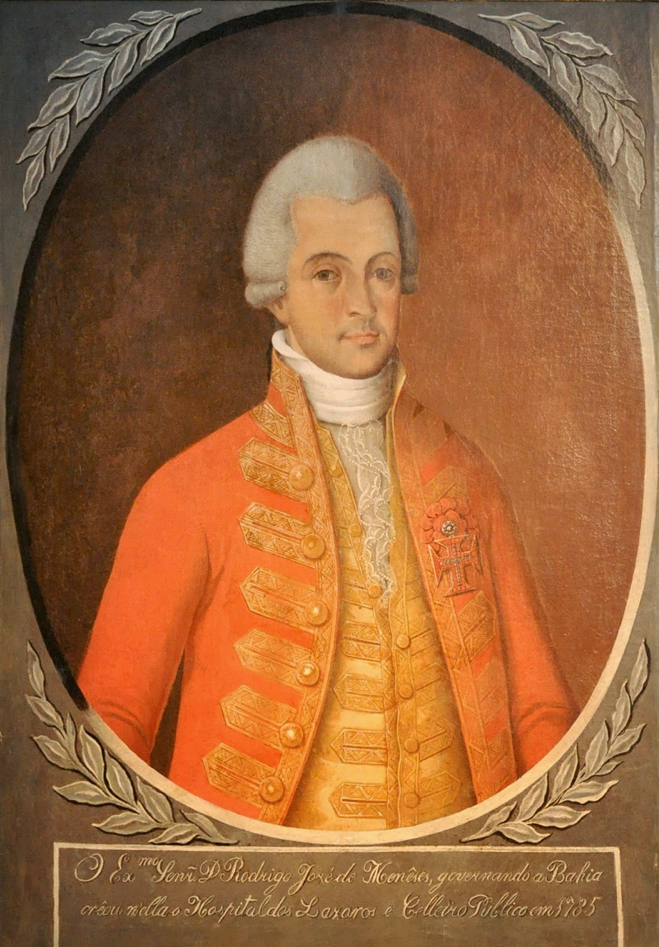 D. Rodrigo José António de Meneses (1750-1807), Governor of Minas Gerais and Bahia, in Colonial Brazil.